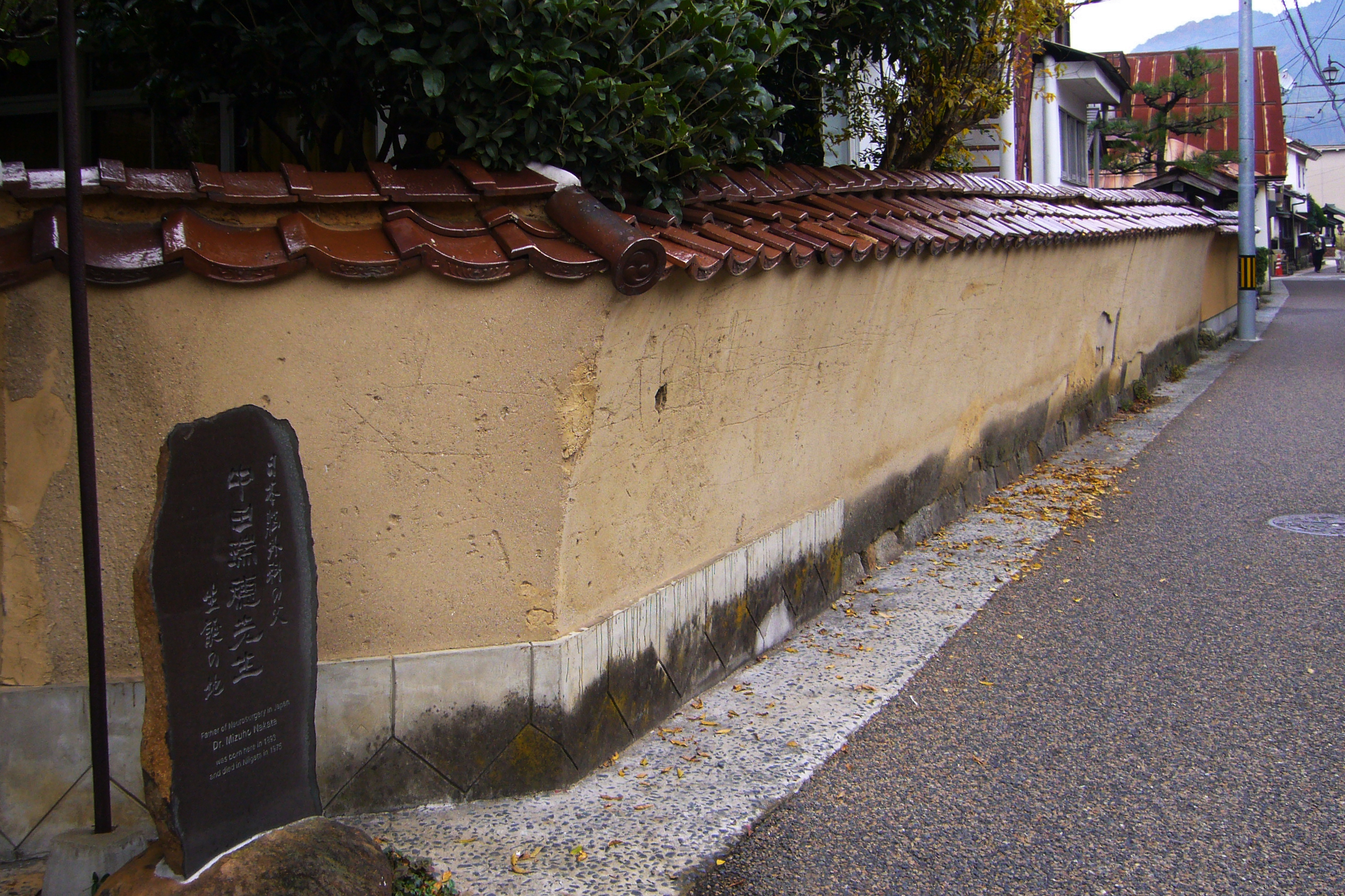 Nakada_Mizuho's birthplace, Tsuwano, Shimane precture, Japan